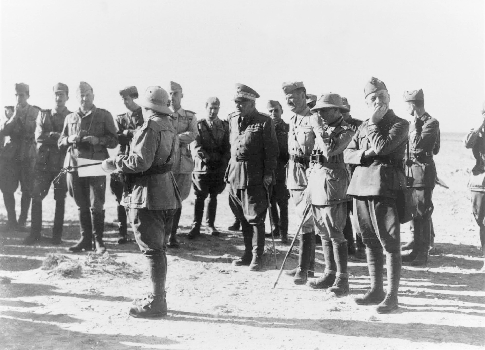 Italians officers, including generals Gambara and Piazzoni ,gather at Tobruk in the autumn of 1941.